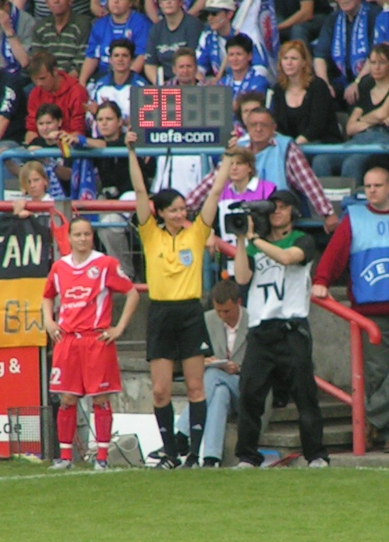 Fourth official, Inka Müller (Germany), in UEFA-Women's Cup 2005 final game at Potsdam, Germany. Source: taken by David Herrmann, 21st May 2005.